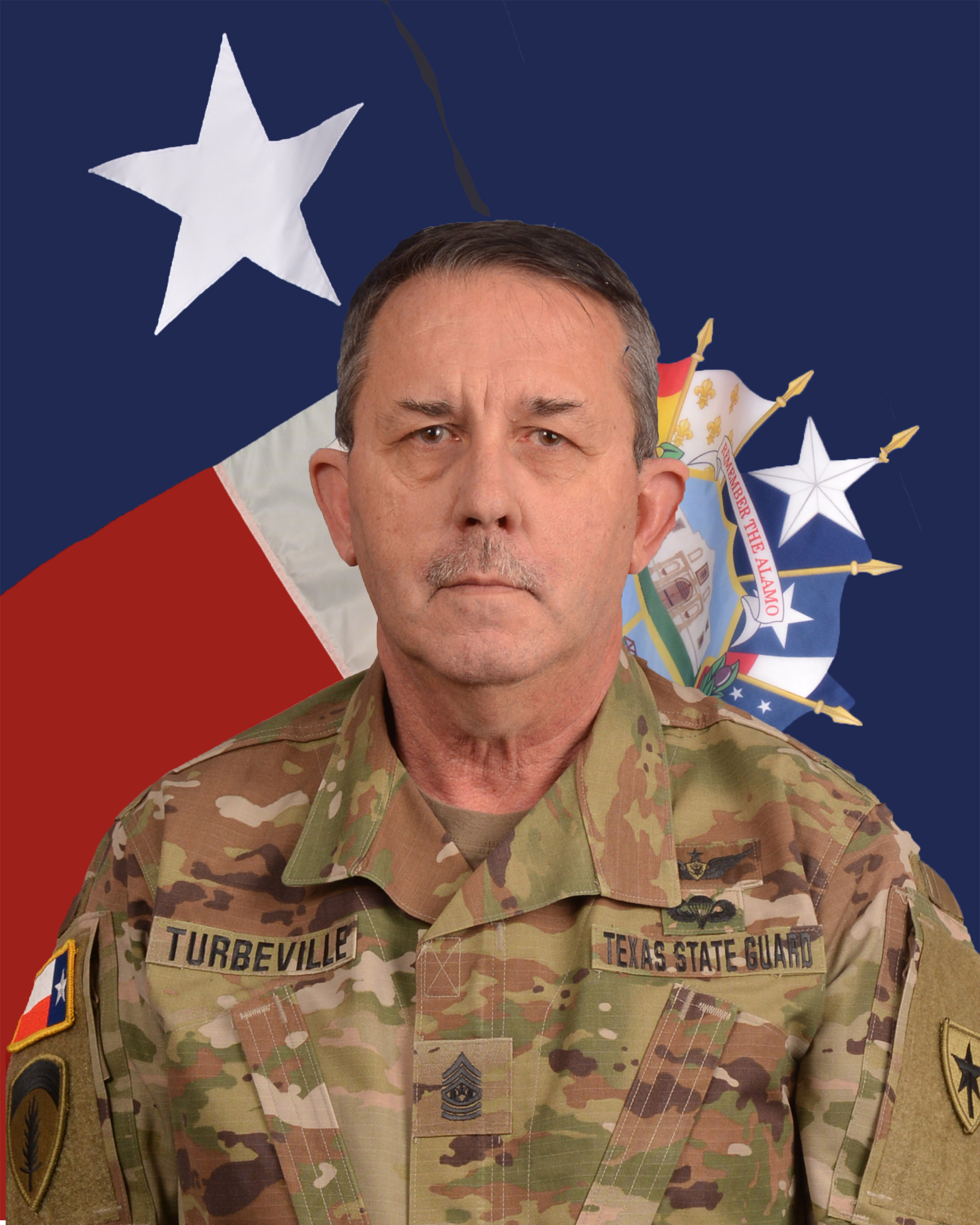 CSM Charles Tuberville